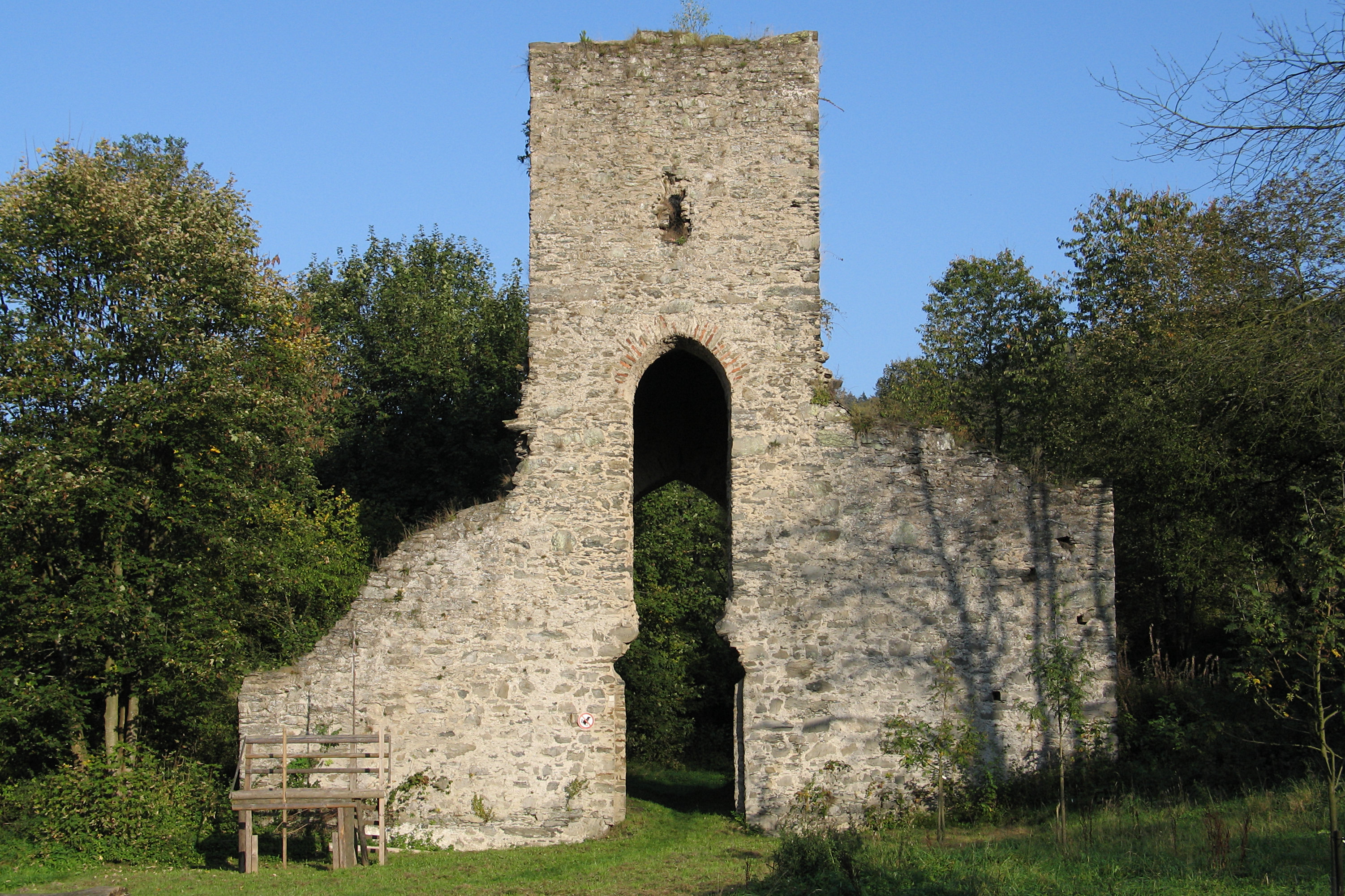 The remains of the Landstein pilgrimage church, Altweilnau, Germany.